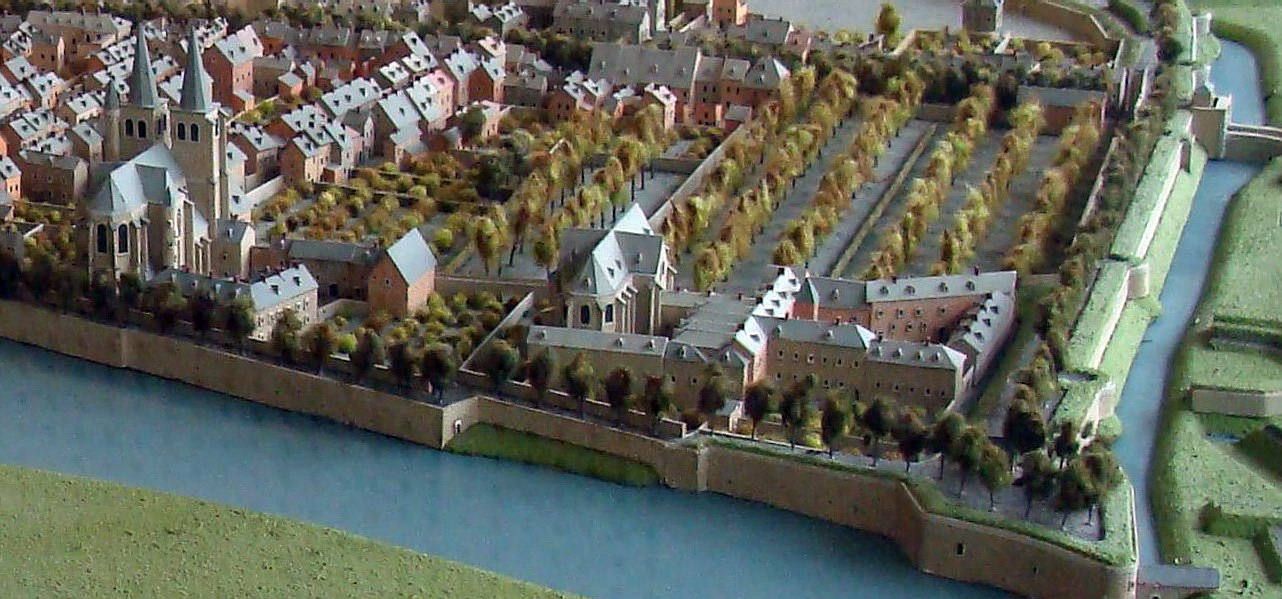 Detail of the copy of the 1750 Maquette of Maastricht in Centre Céramique, Maastricht, the Netherlands. View of the Meuse river and the northwest corner of the fortified city with (to the left) the monastery and church of the Hospital Brothers of St. Anthony and (to the right) the Commandry Nieuwen Biesen of the Knights of the Teutonic Order.